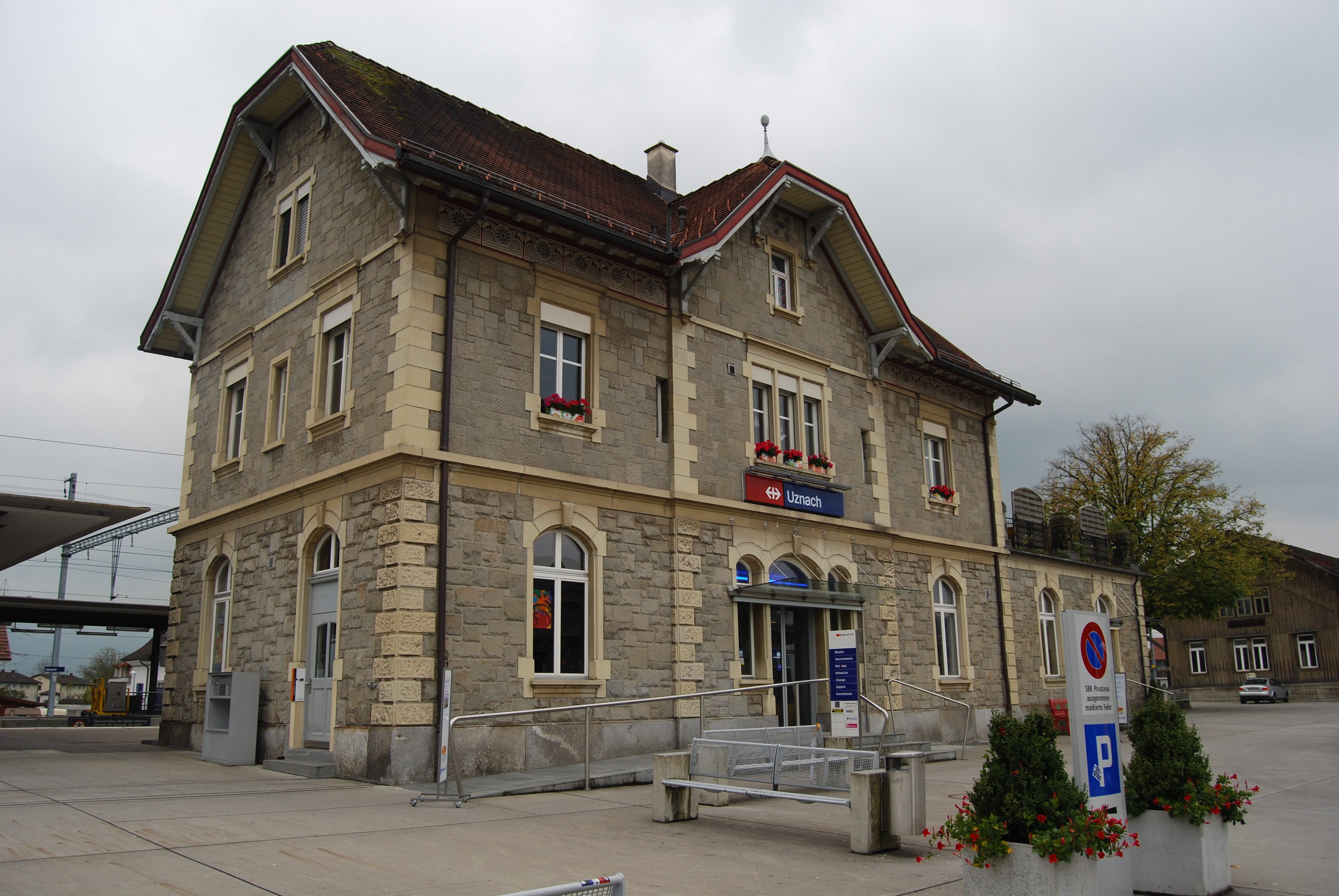 Train station of Uznach, canton of St. Gallen, Switzerland